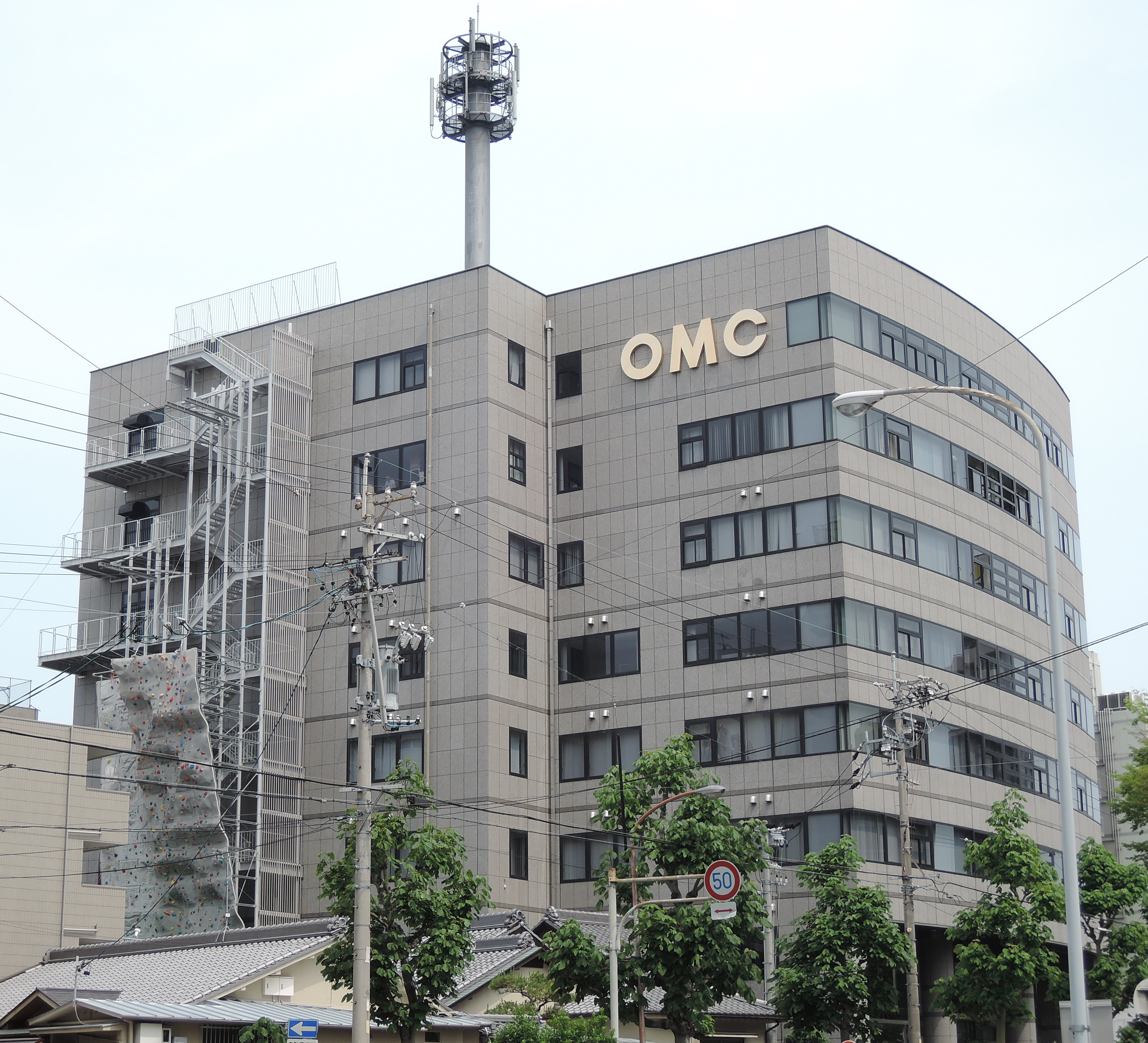 OMC building ,Aichi prefecture,Japan